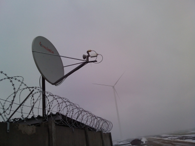 Satellite internet for wind park